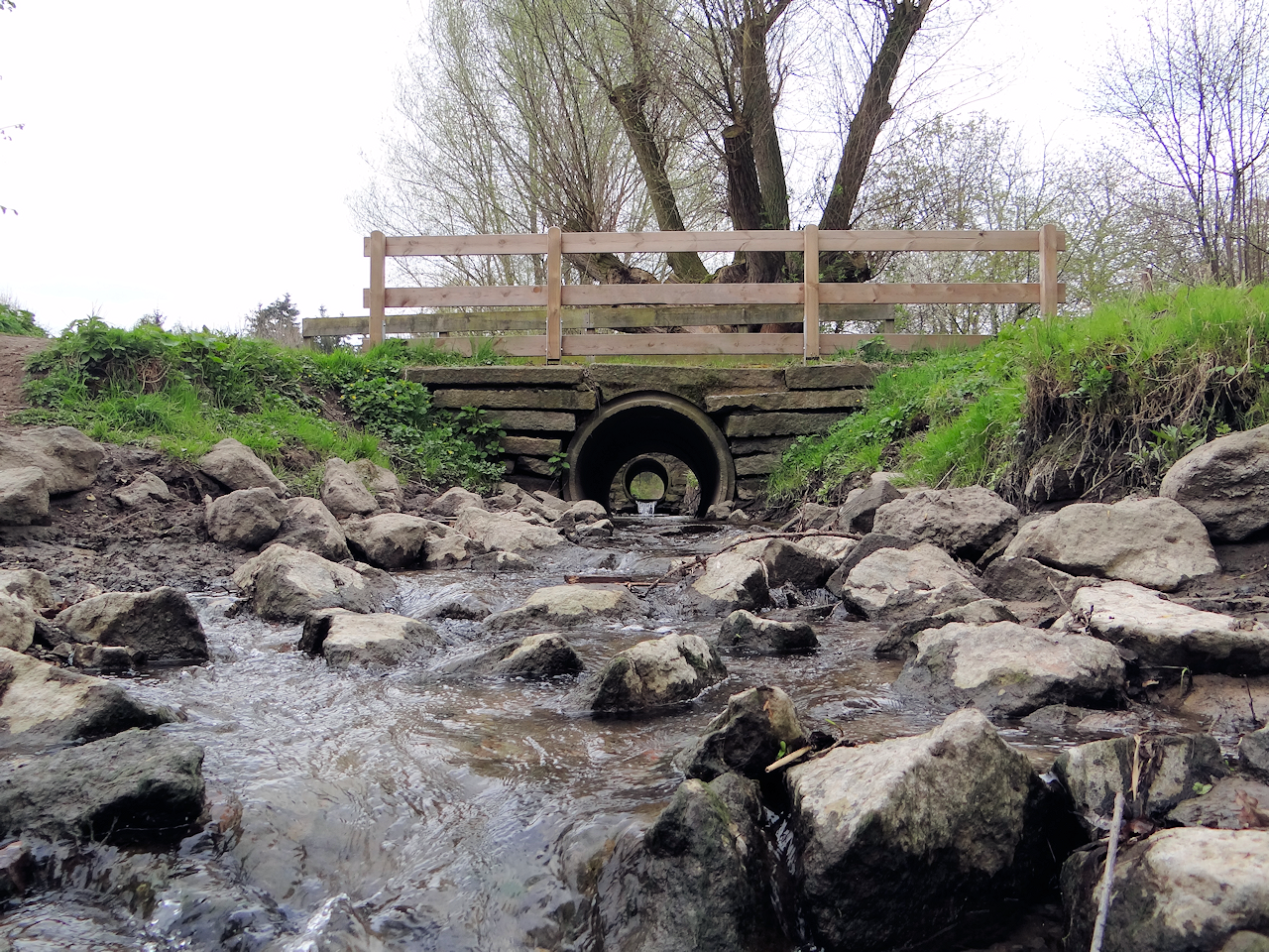 Mouth of Springbach